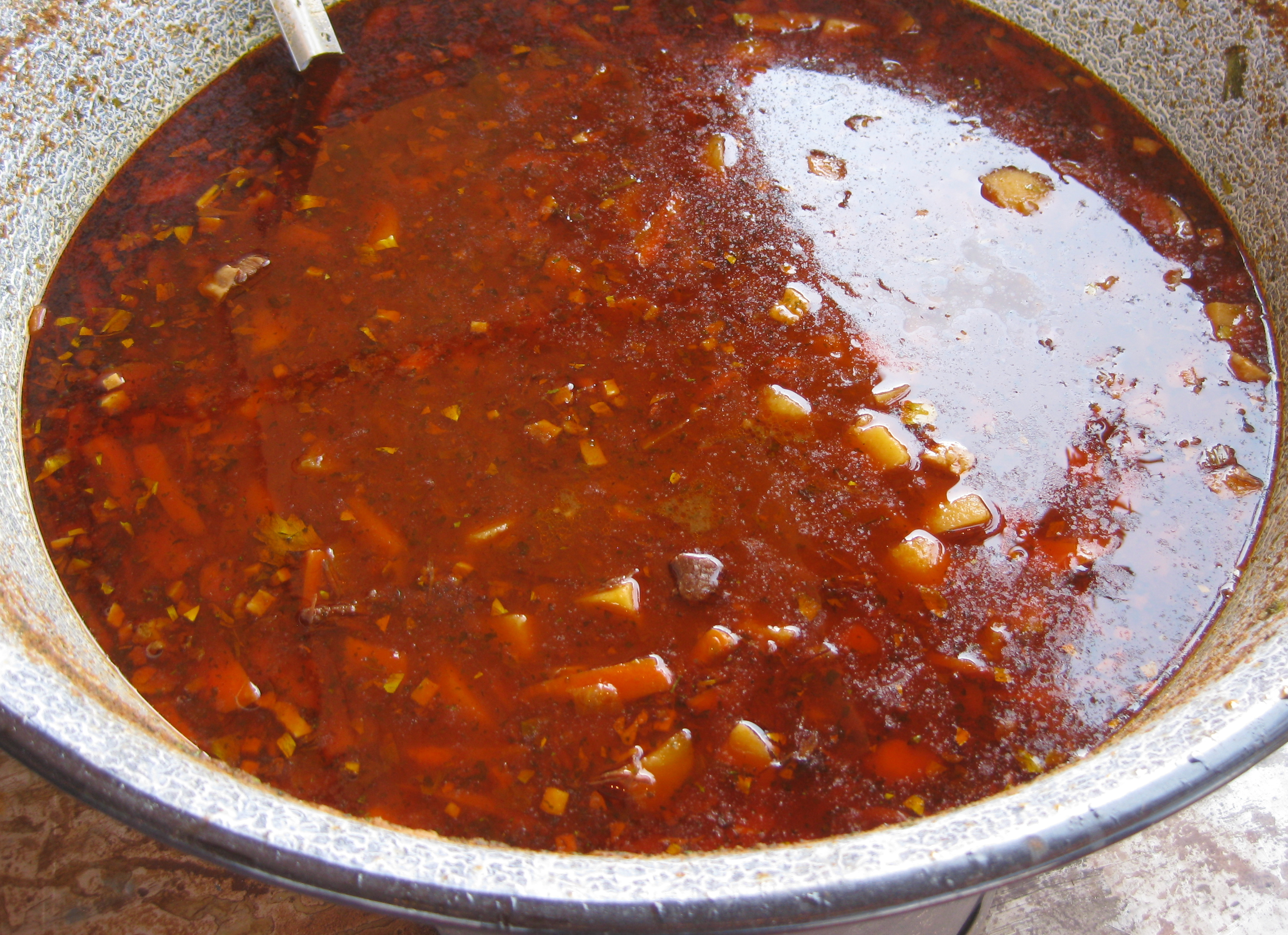 A cauldron of cooking Goulash in Budapest